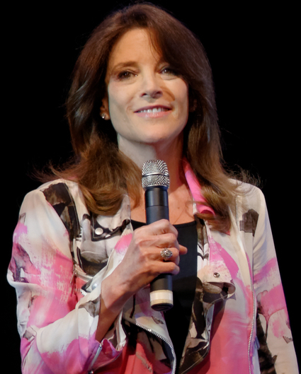 Alanis Morissette performing live at Marianne Williamson's pre-election rally, held at the Saban Theater in Beverly Hills California, on Monday May 19th, 2014.